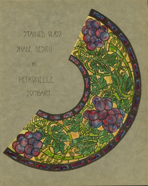 Identifier: A1621-00729 Date: 1907-05 Decade: 1900-1909 Creator: Sombart, Petronelle, 1888- Types: Serial , Page Subjects: Artists , Women , Art Rights: IN COPYRIGHT Permalink: Description: Stained glass shade design by Petronelle Sombart